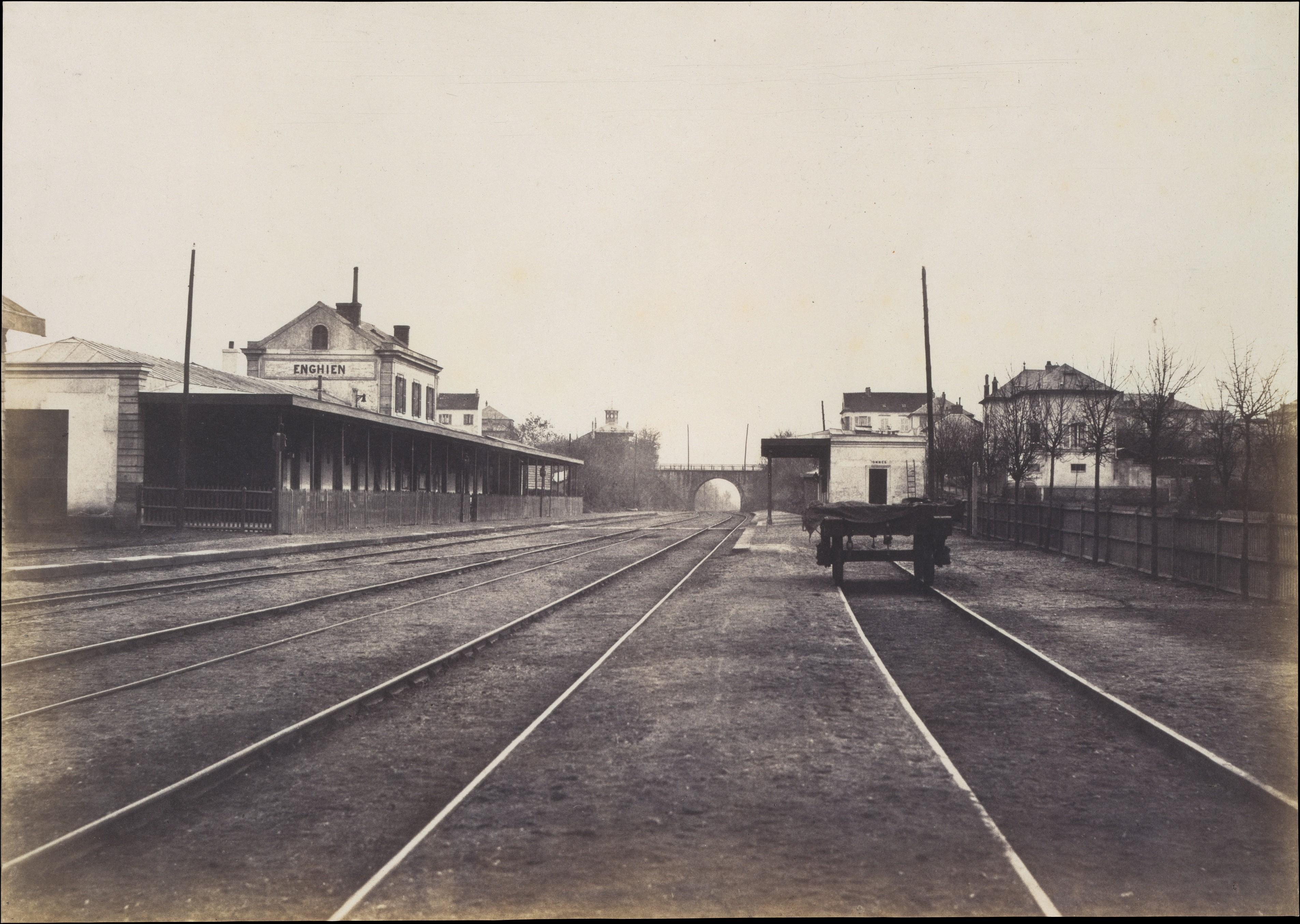 Gare d'Enghien (Seine-et-Oise, France).